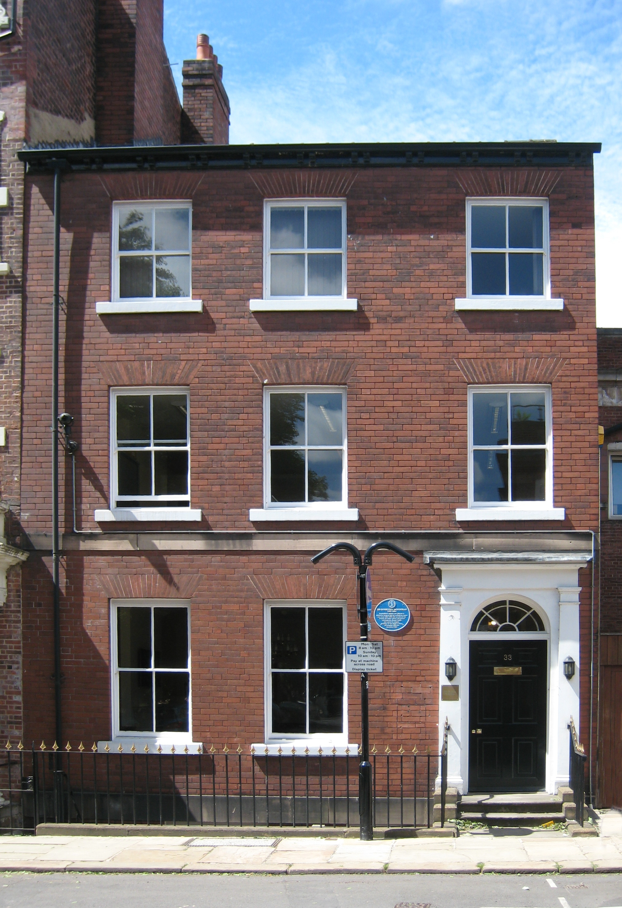 Sir Berkeley Moynihan Consulting Rooms, 33 Park Place West, Leeds